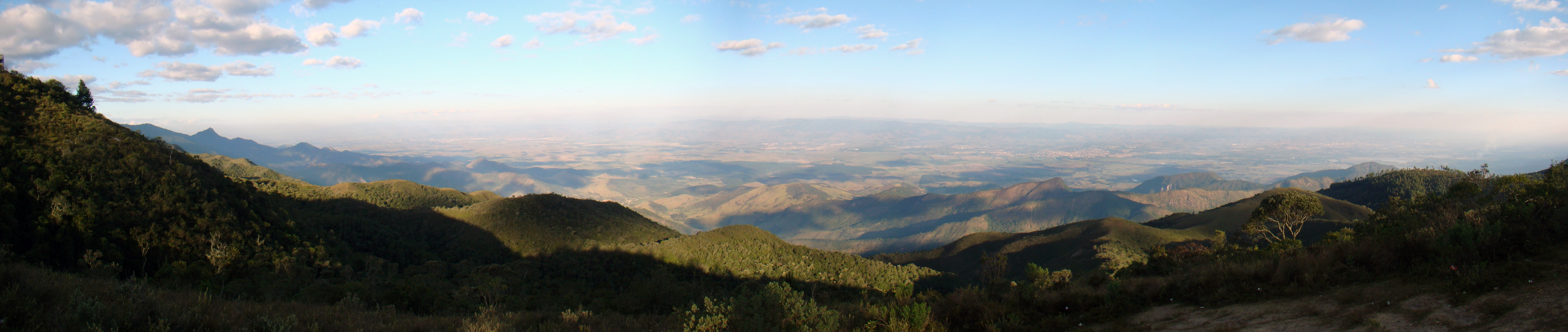 Pico do Itapeva in Serra da Mantiqueira, Campos do Jordão city, São Paulo State, Brazil.